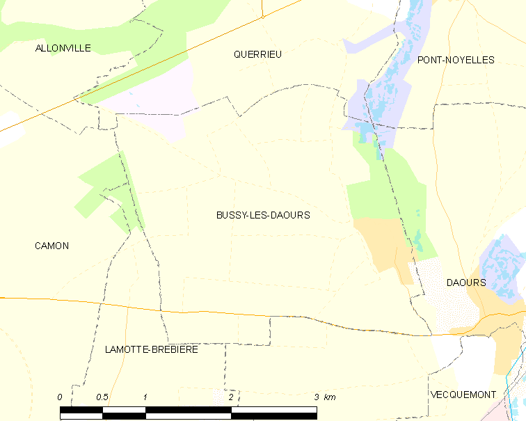 Map of French municipality Bussy-lès-Daours